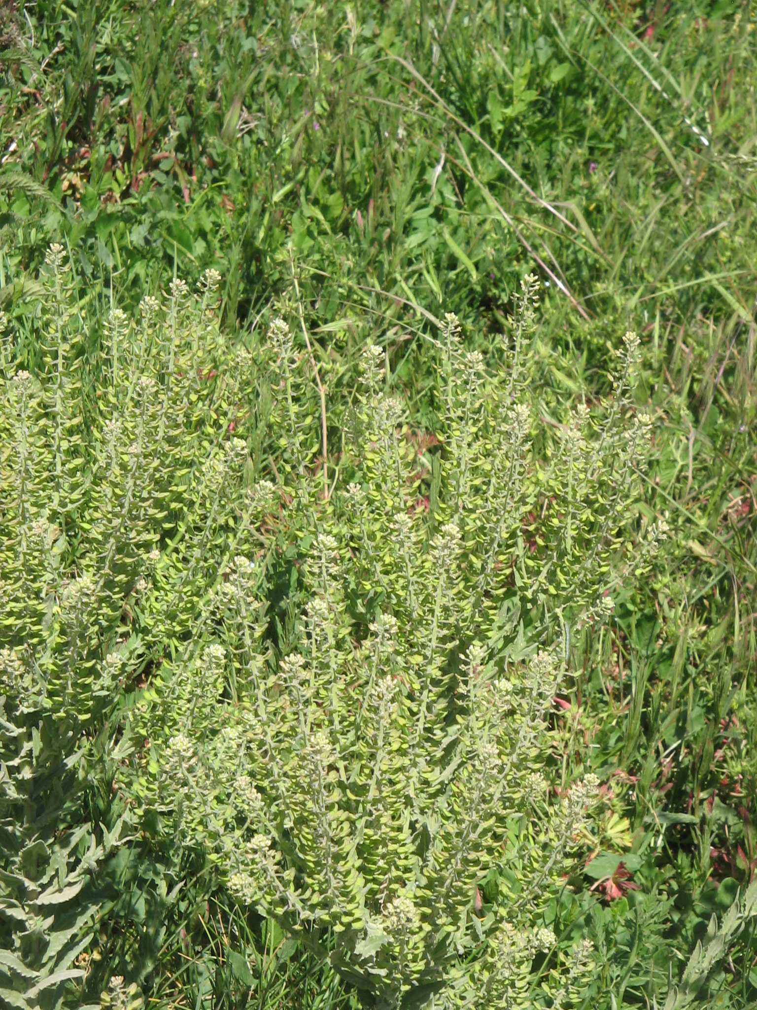 Lepidium campestre